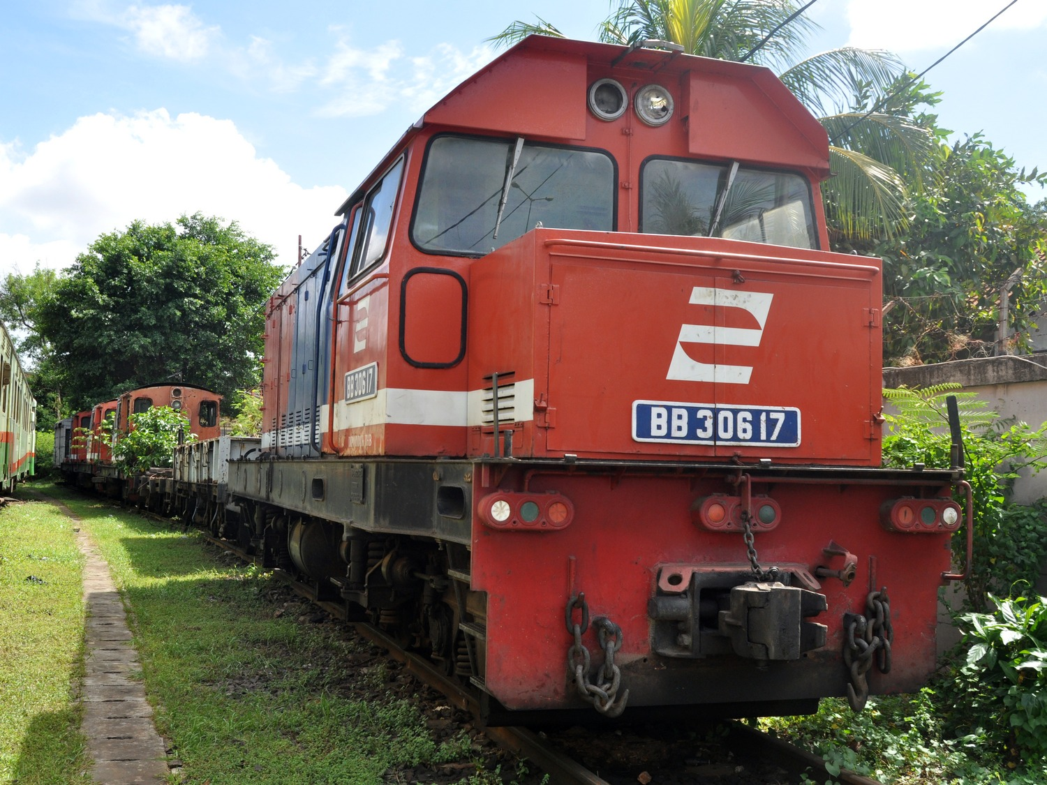 BB306-17 diesel-hydraulic locomotive, rest in backyard of Tanahabang Station workshop